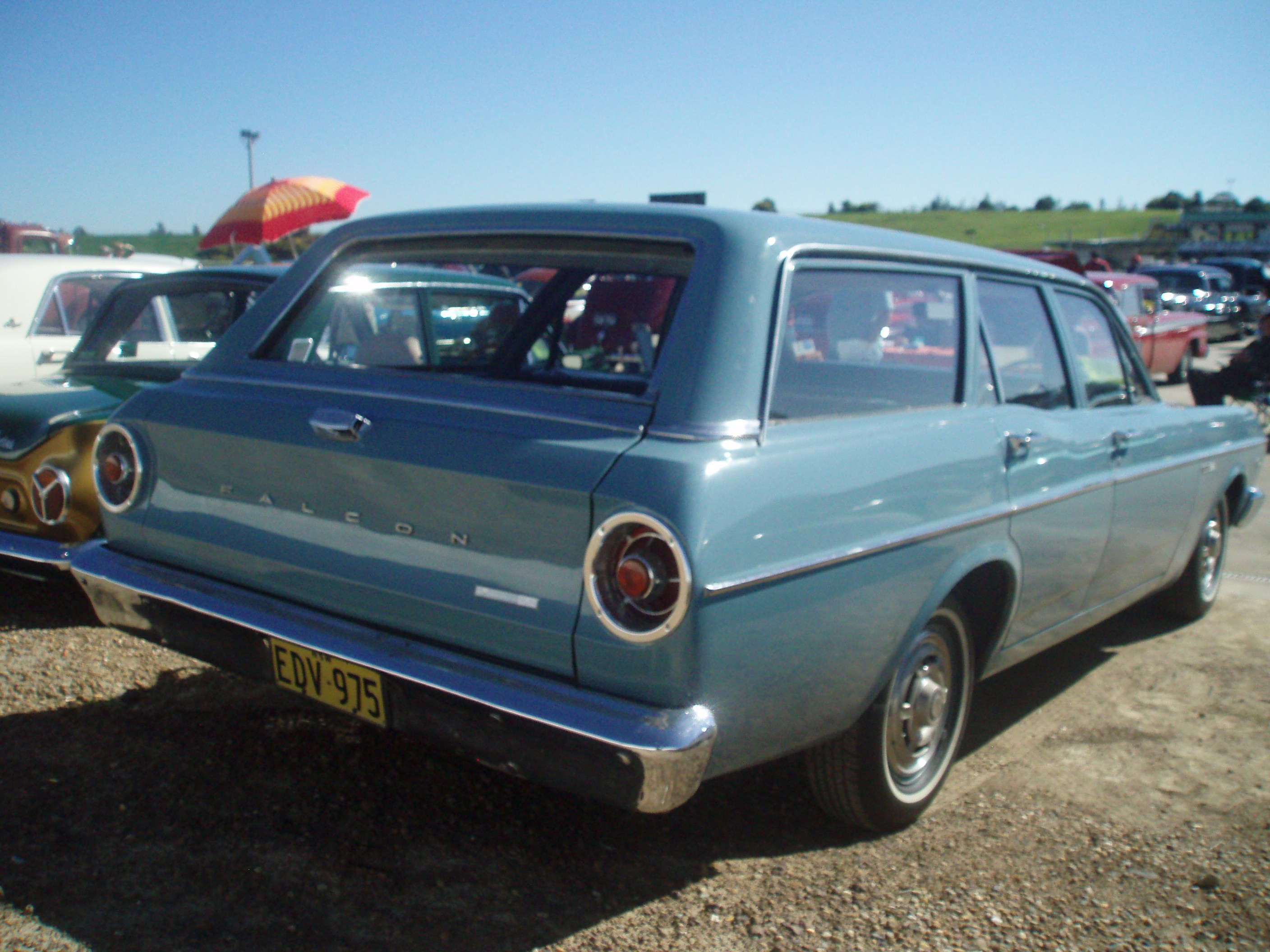 1966 Ford XR Falcon 500 station wagon. These Australian Falcon wagons were different to the 1966 US equivalents, having been designed in Australia, and sharing the sedan versions tail lights. This one is unrestored and features the original New South Wales plates. Taken at Shannon's Eastern Creek Classic 2010, held at Eastern Creek Raceway Sydney.